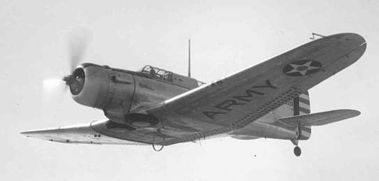 Douglas (Northrop) A-17 , also known as the A-33, in flight on a U.S. Army Air Corps training mission.